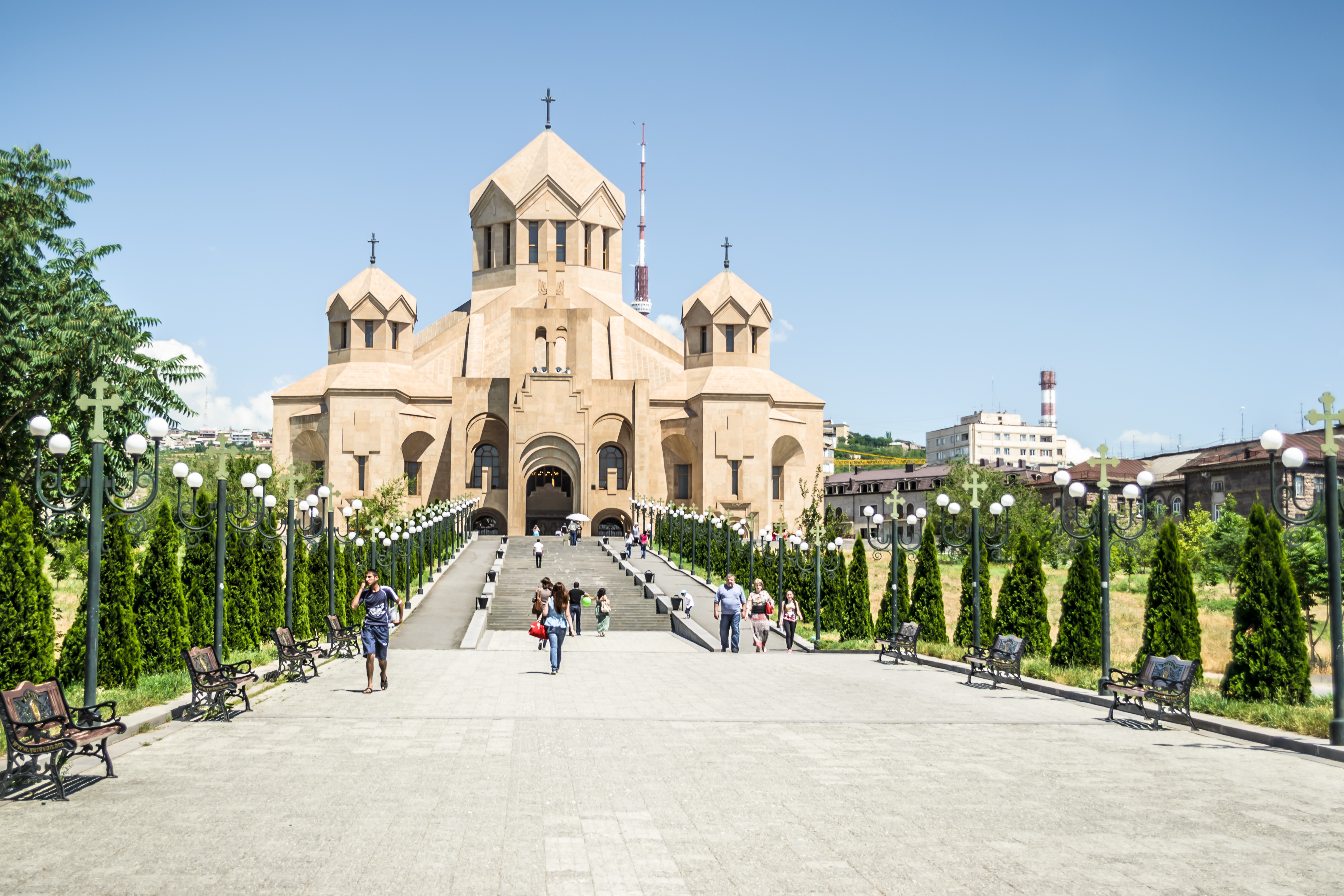 Saint Gregory Cathedral of Yerevan.